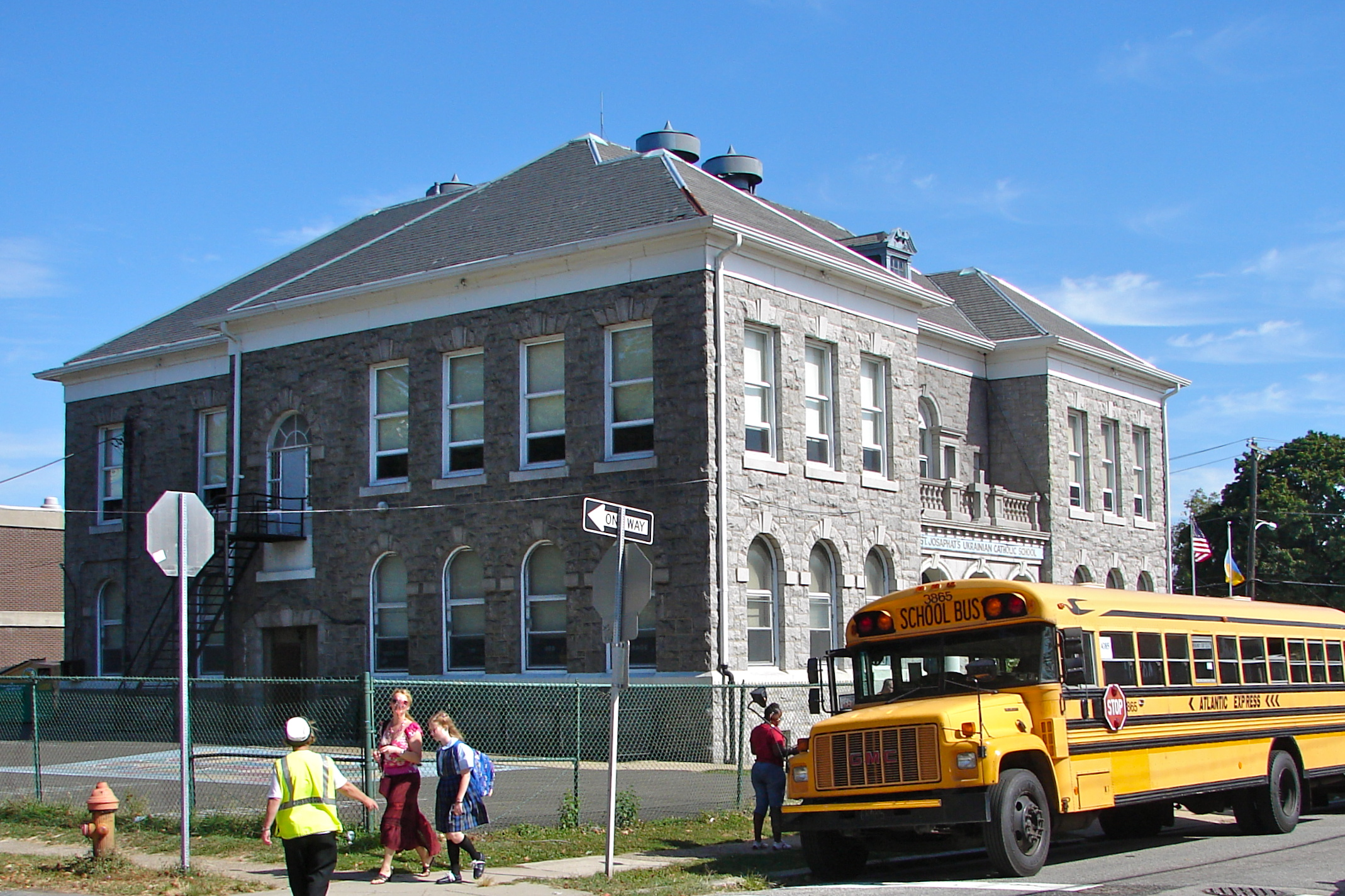 Mary Disston School in Philadelphia on the NRHP since November 18, 1988. At 4521 Longshore Avenue in the NE Philadelphia neighborhood of Tacony. Borders in back Disston Street, and to the side Disston Recreation Center. It also should not be confused with the Hamilton Disston School (also on the NRHP) a few blocks south. The school now operates as the St. Jahosaphat Ukrainian Catholic School, and the cross by the front door has obviously be added recently.